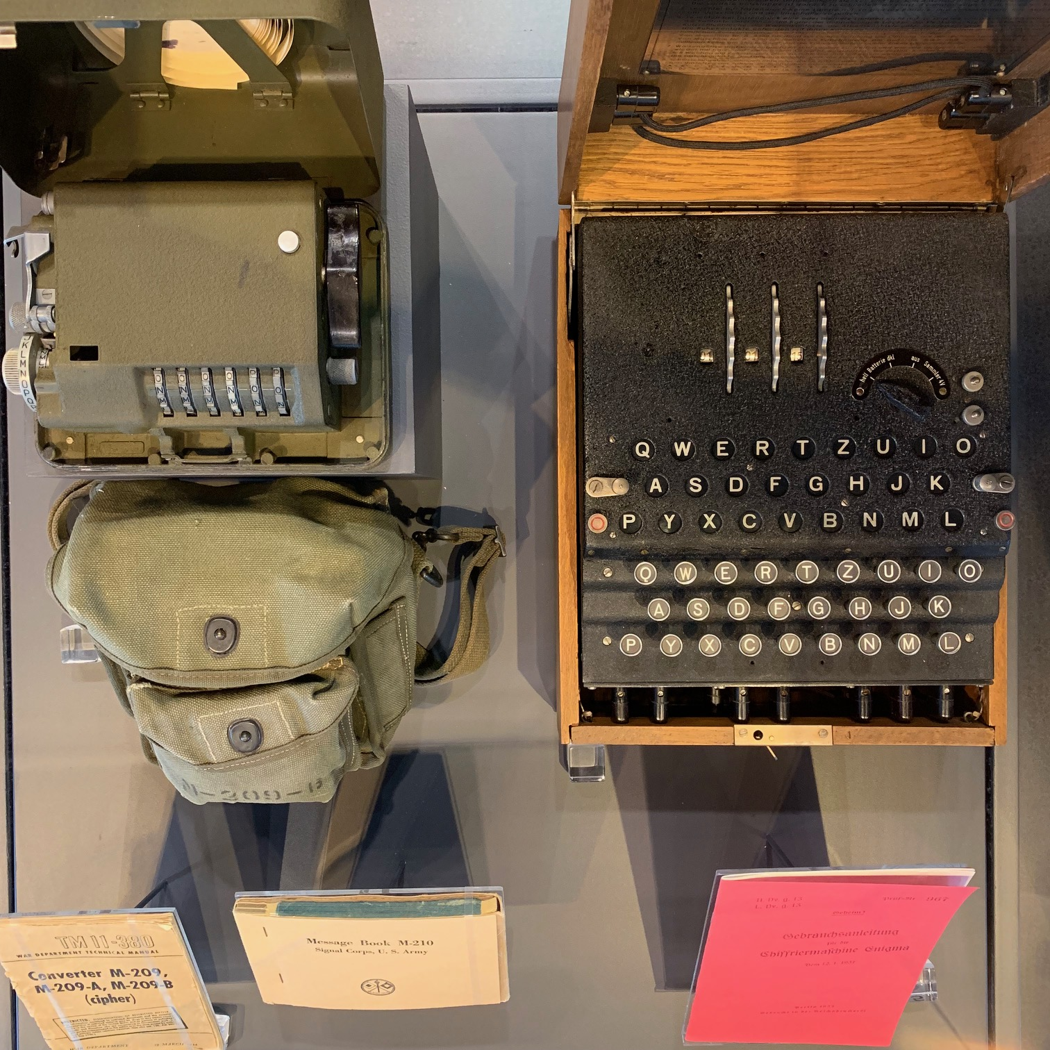 Enigma and Decoder (from above) at Discovery Park of America